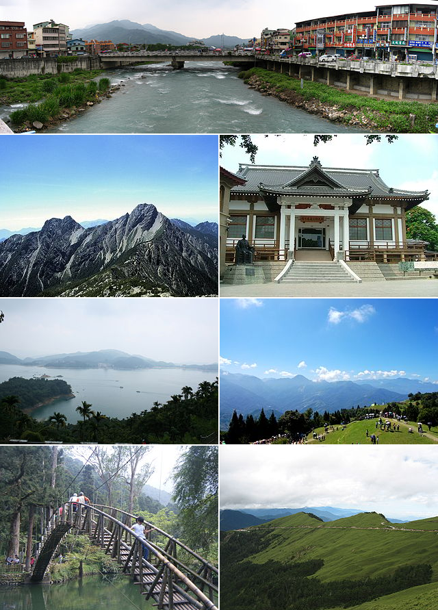 Montage of various Nantou County images. 中文（台灣）: 南投縣的蒙太奇。